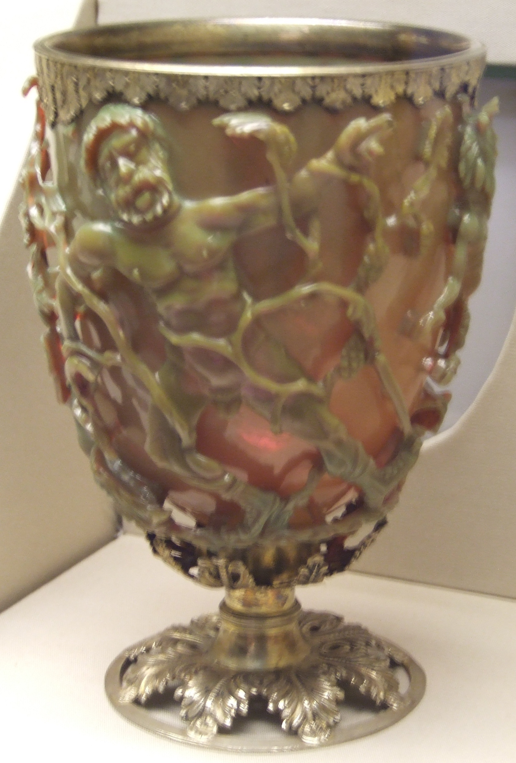 The Lycurgus cup in the British Museum. Made from dichroic Roman glass. Photo is somewhat out of focus.